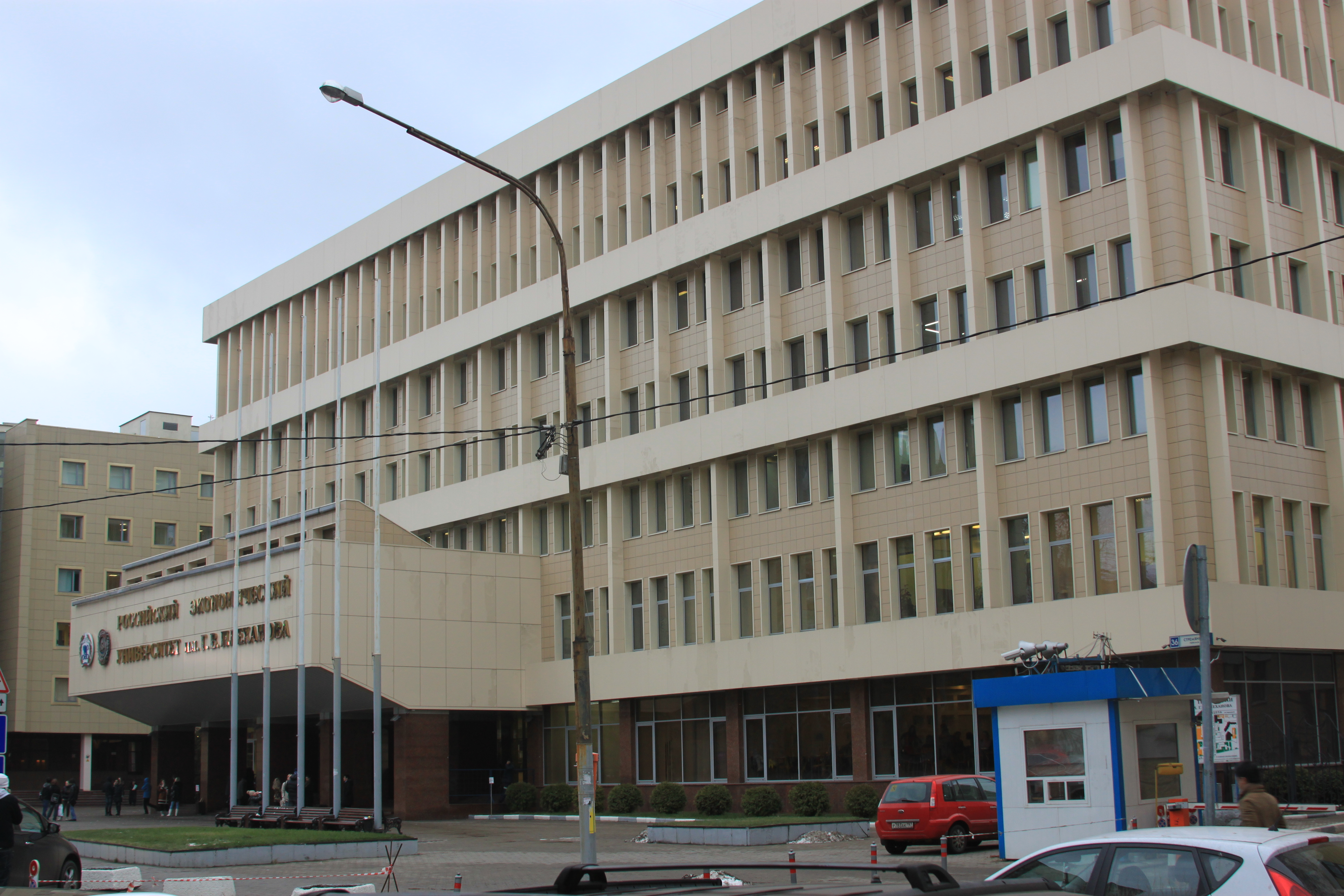 Russia, Moscow, Plekhanov Russian University of Economics, Stremyanny pereulok, РЭА, РЭУ, Российский экономический университет имени Г. В. Плеханова, Стремянный переулок дом 36, корпус 3 (главный), Замоскворечье